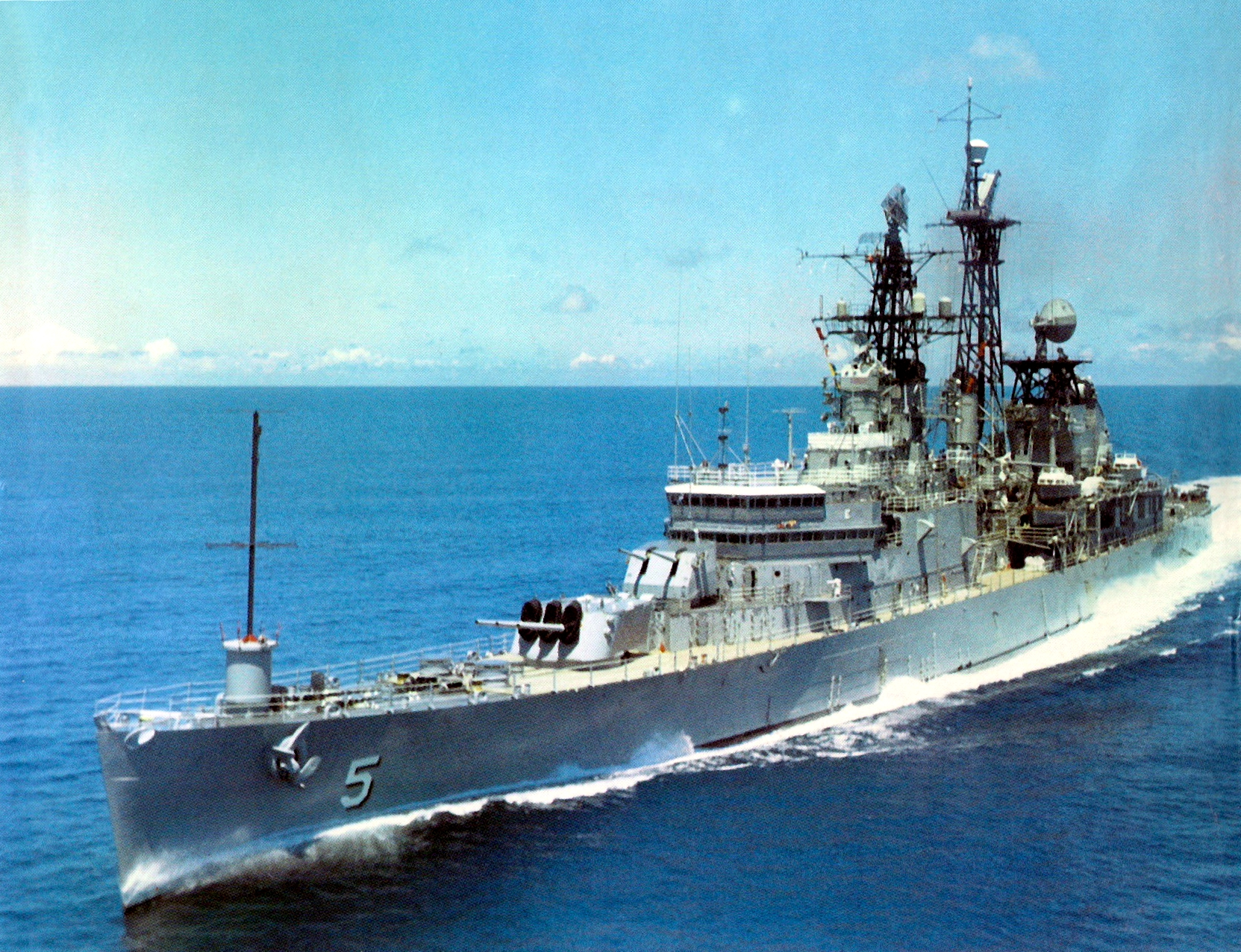 The U.S. Navy guided missile cruiser USS Oklahoma City (CLG-5) underway in the early 1960s.